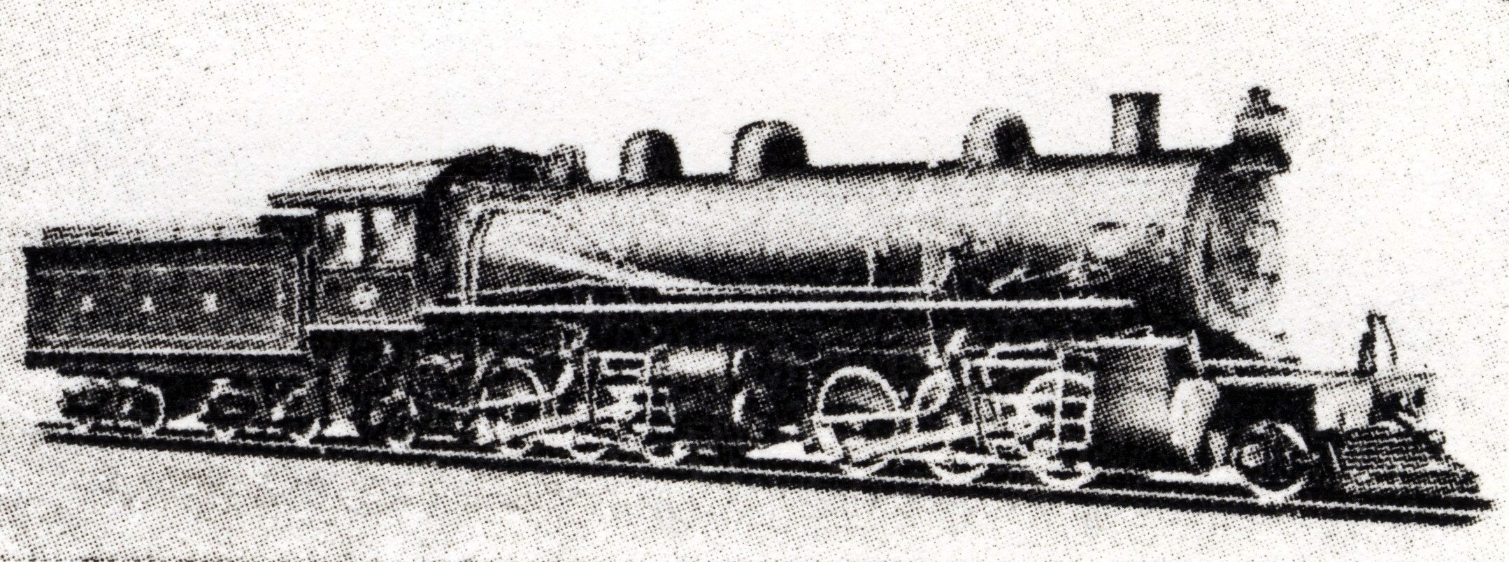 South African Railways Class MF, with Type XM4 tender